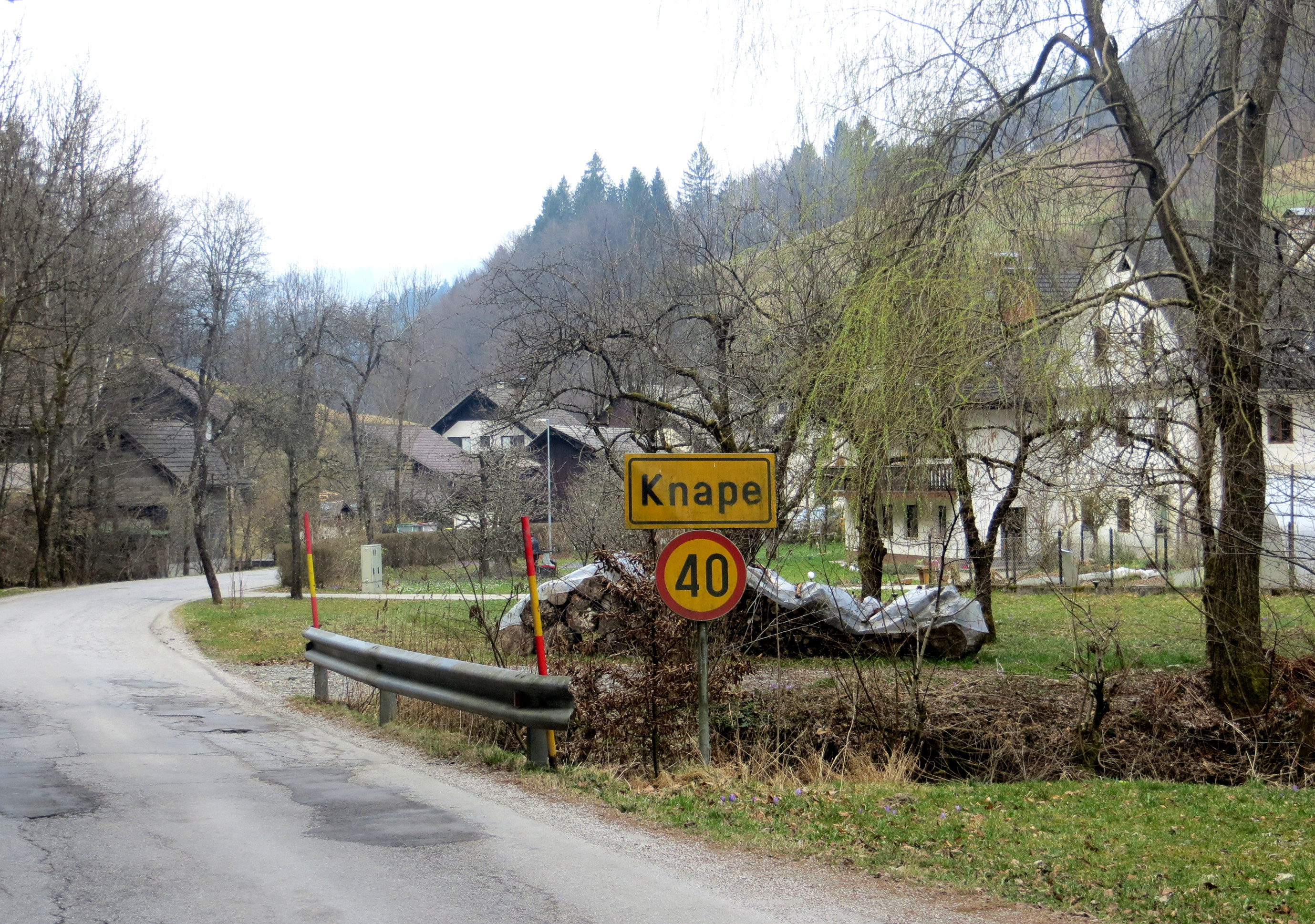 Knape, Municipality of Škofja Loka, Slovenia